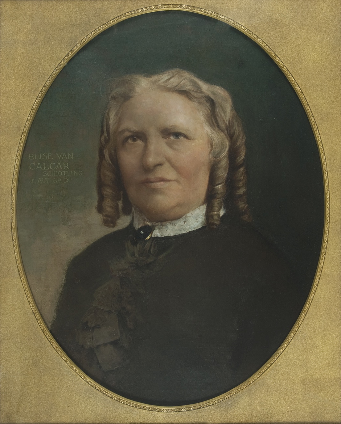 Dutch writer Elise van Calcar (1822-1904). Painting by J.H. Sikemeijer (1906). Collection Gemeentemuseum Den Haag (the Netherlands), on display 2016: Nederlands Letterkundig Museum